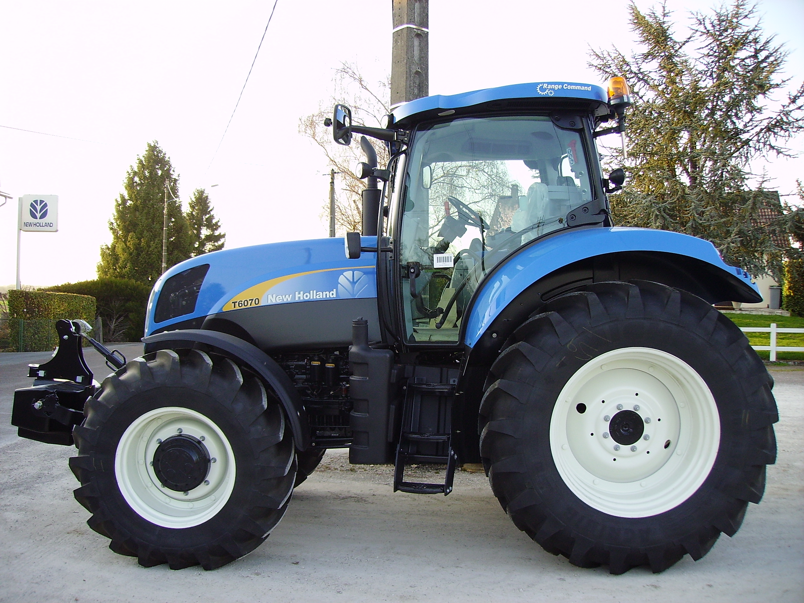 New Holland T6070 tractor.